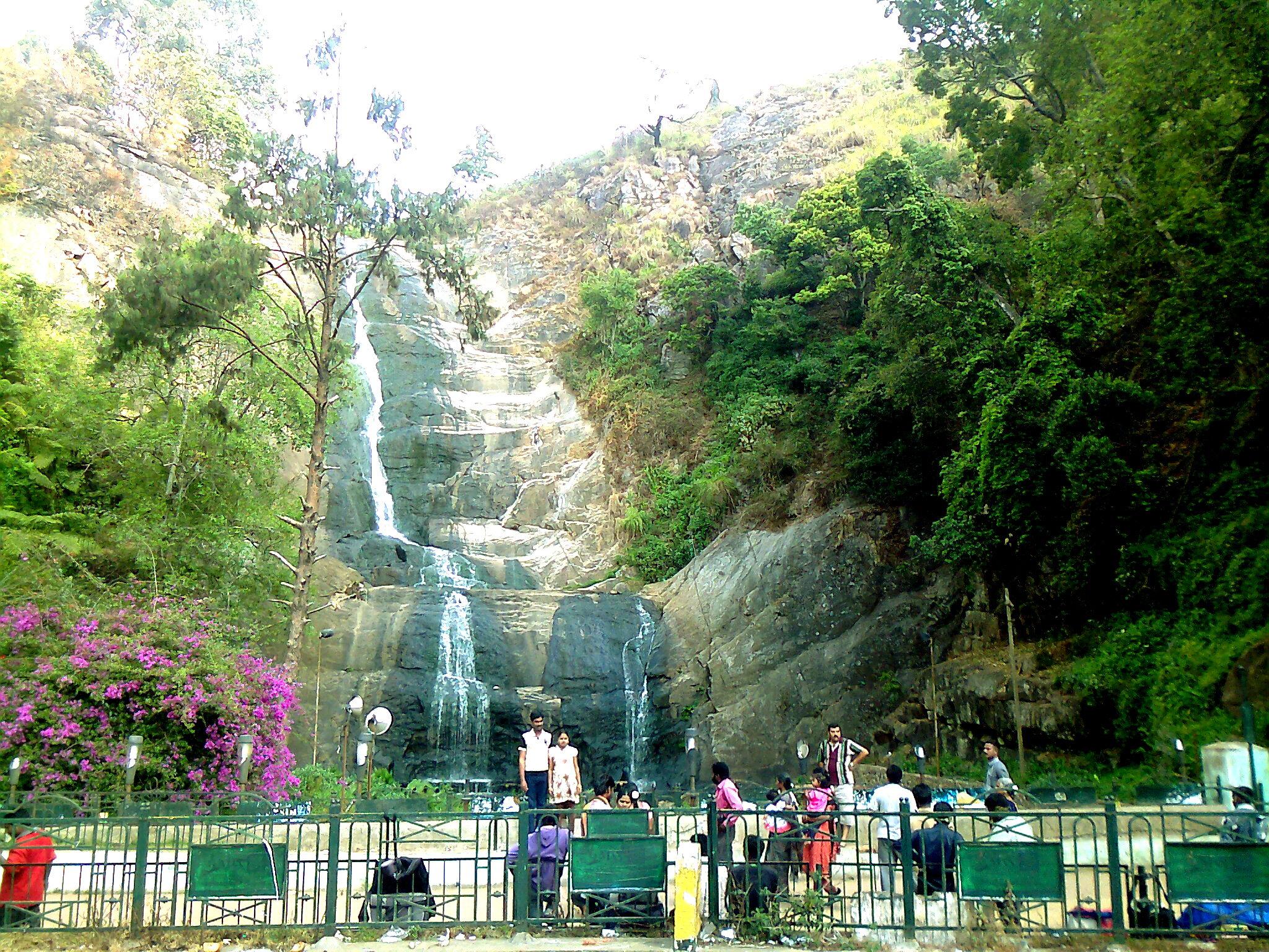 Silver Cascade Waterfall, 8 km before Kodaikanal on Ghat Road